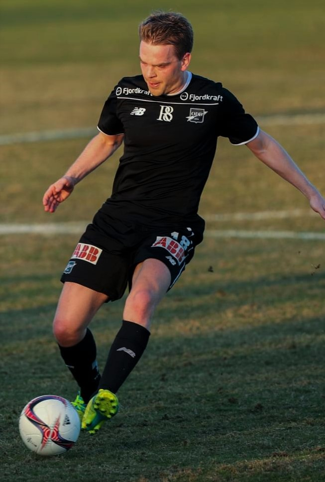 Joakim Våge Nilsen